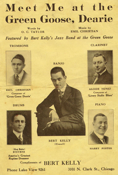 "Meet Me at the Green Goose Dearie", promotional sheet music, published in Chicago, 1918. Cover has photos of members of Bert Kelly Jazz Band -- Kelly, Emil Christian, Rag Baby Stevens, Alcide Nunez, Harry Foster.